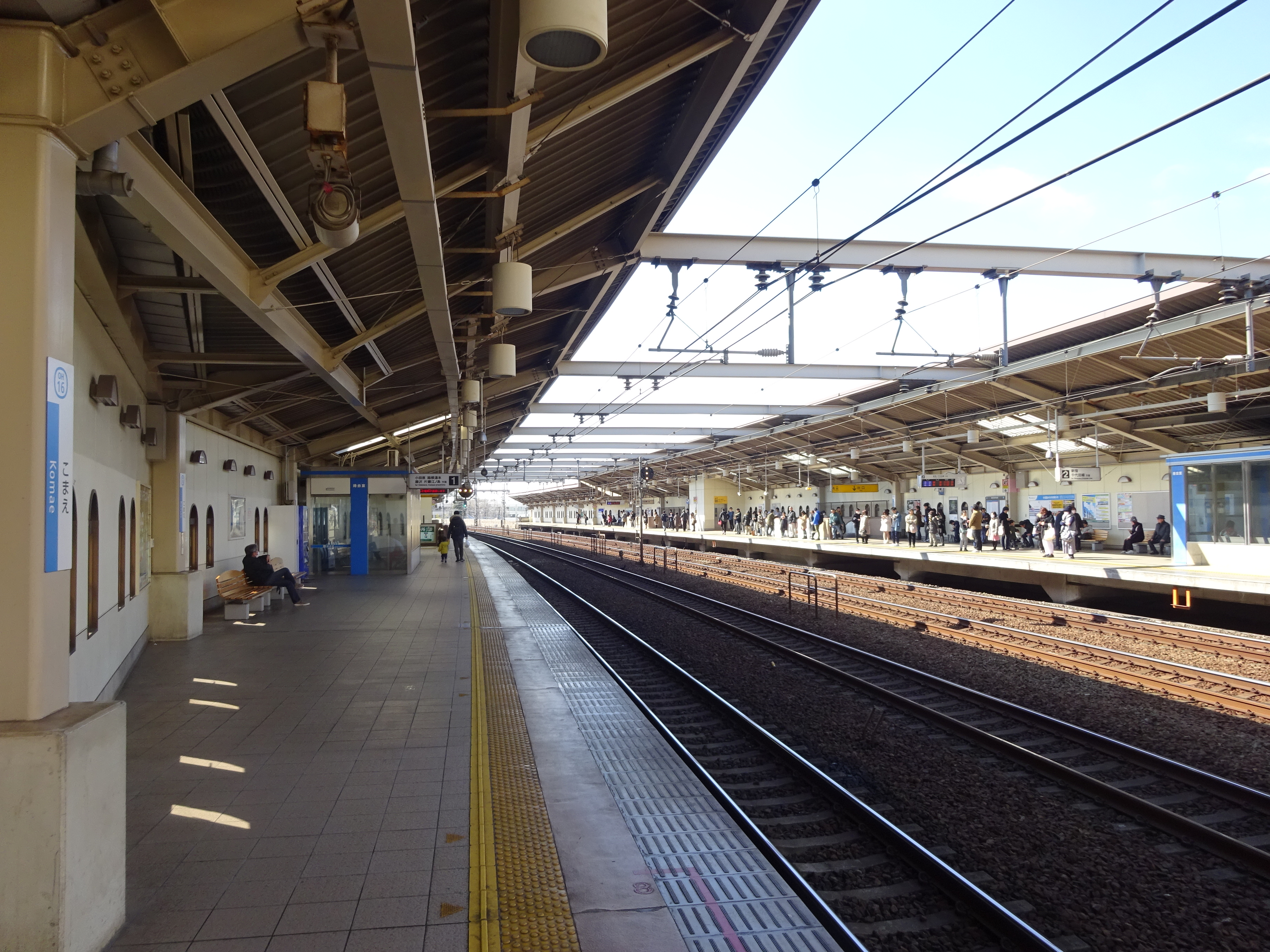 Platforms of Komae Station